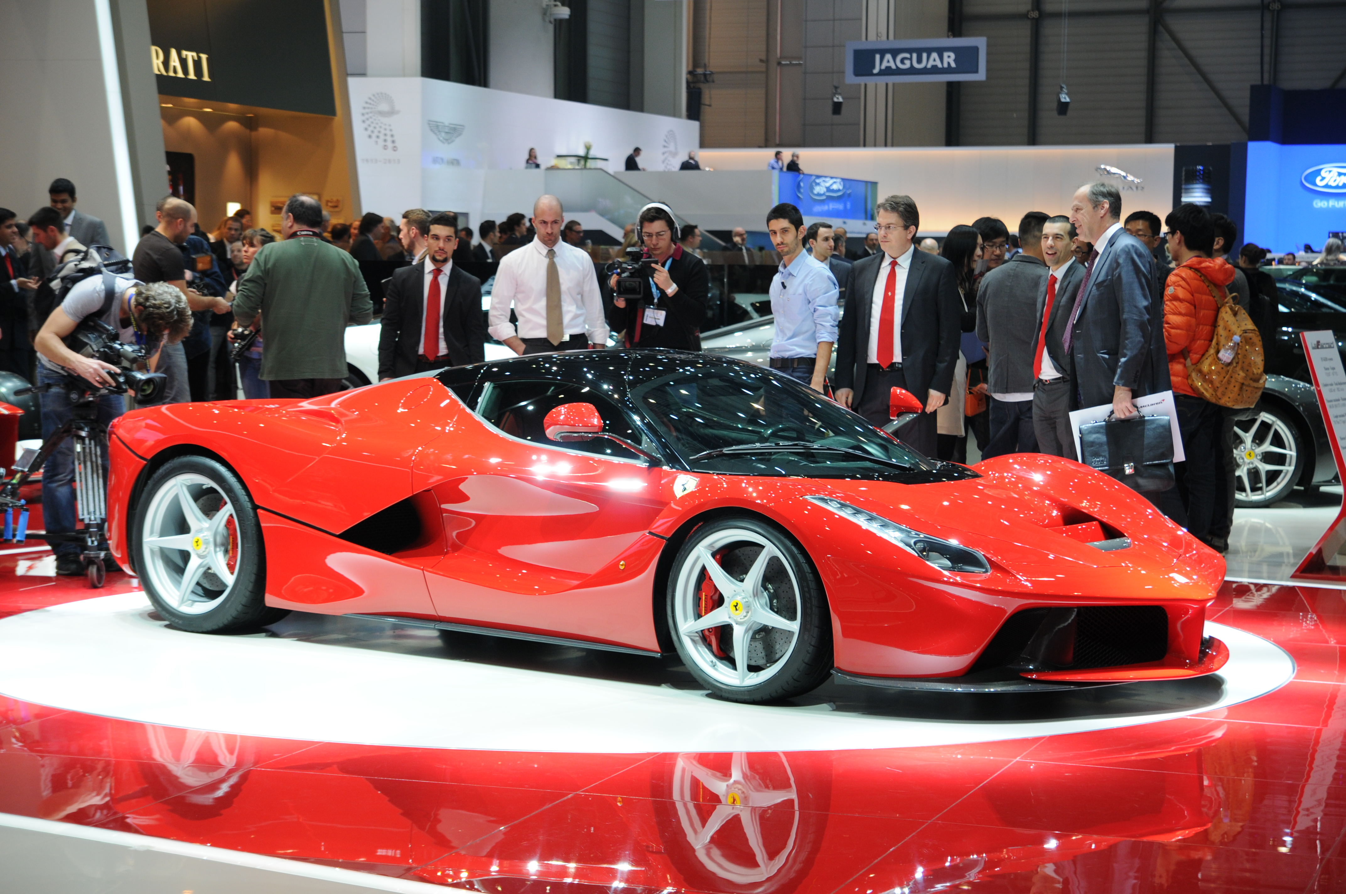 LaFerrari at the Geneva Motor Show 2013 (photo taken on the first press day which was the World Premiere of this car)